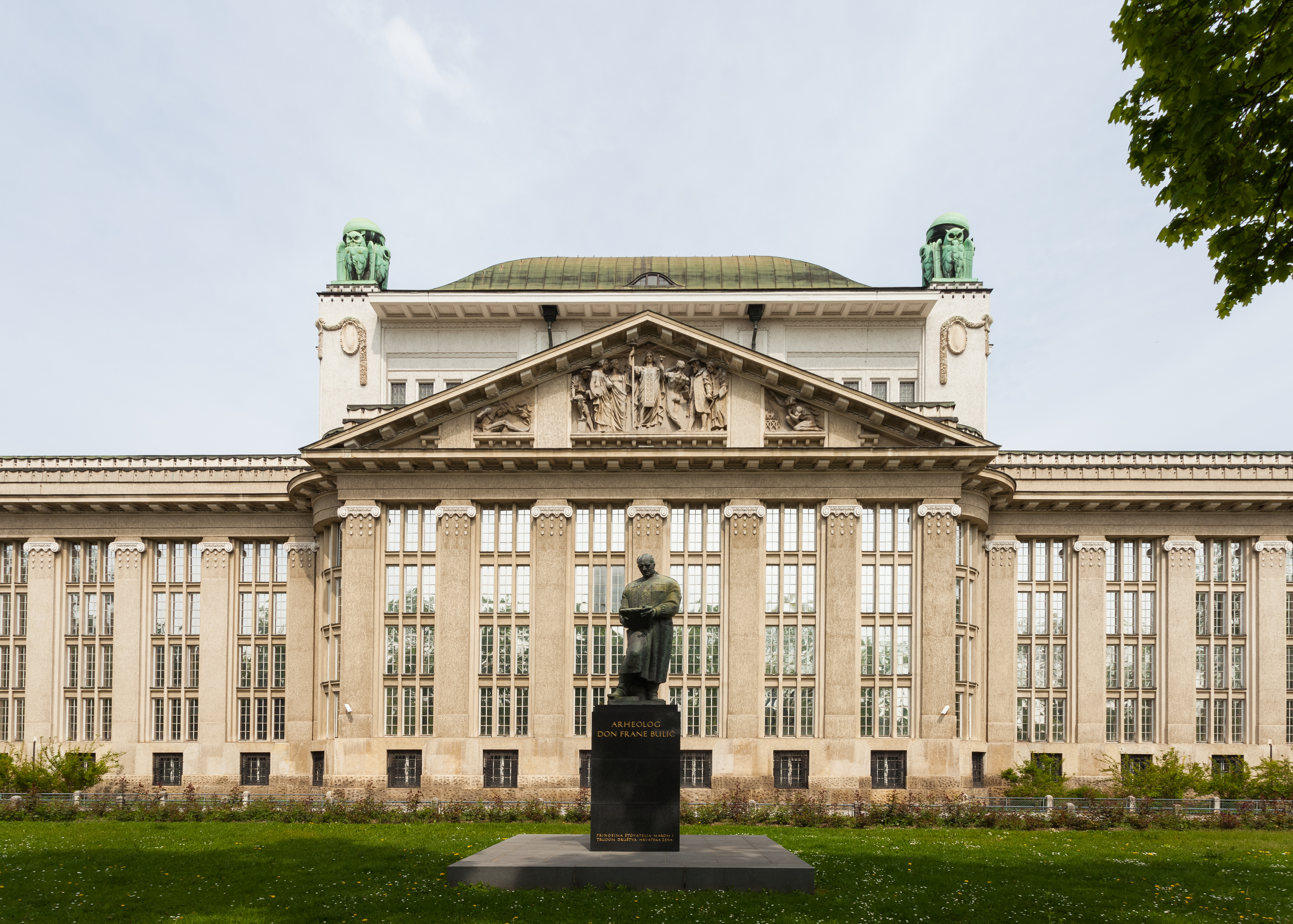 National Archive, Zagreb, Croatia